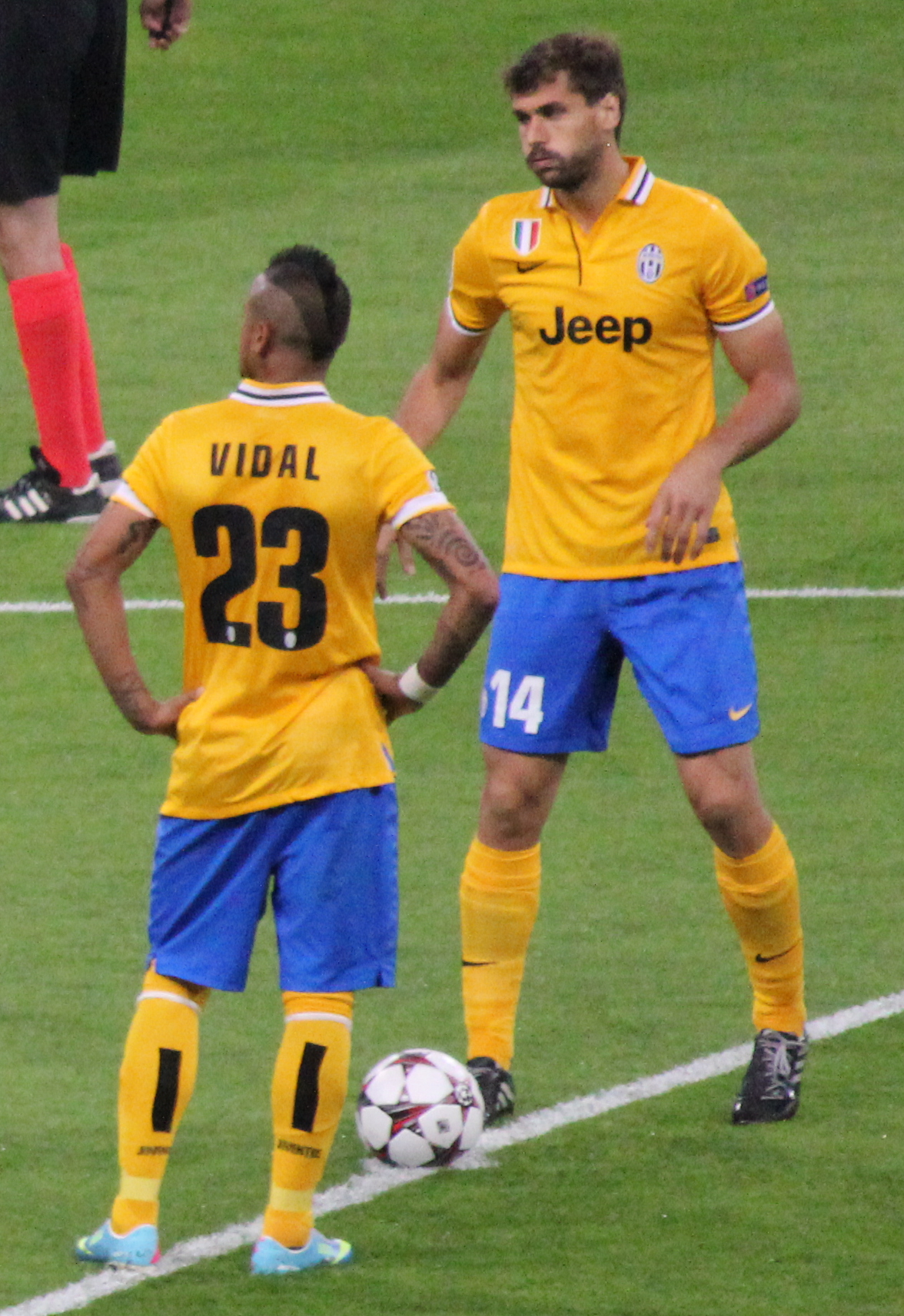 Real Madrid vs Juventus, 24 October 2013 Champions League